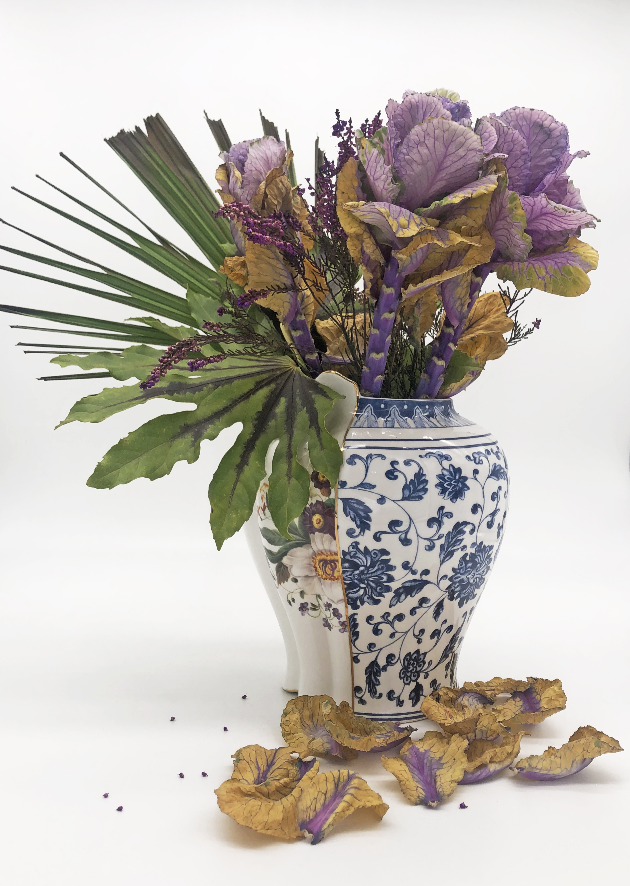 Melania vase part of the Hybrid collection by CTRLZAK for Seletti